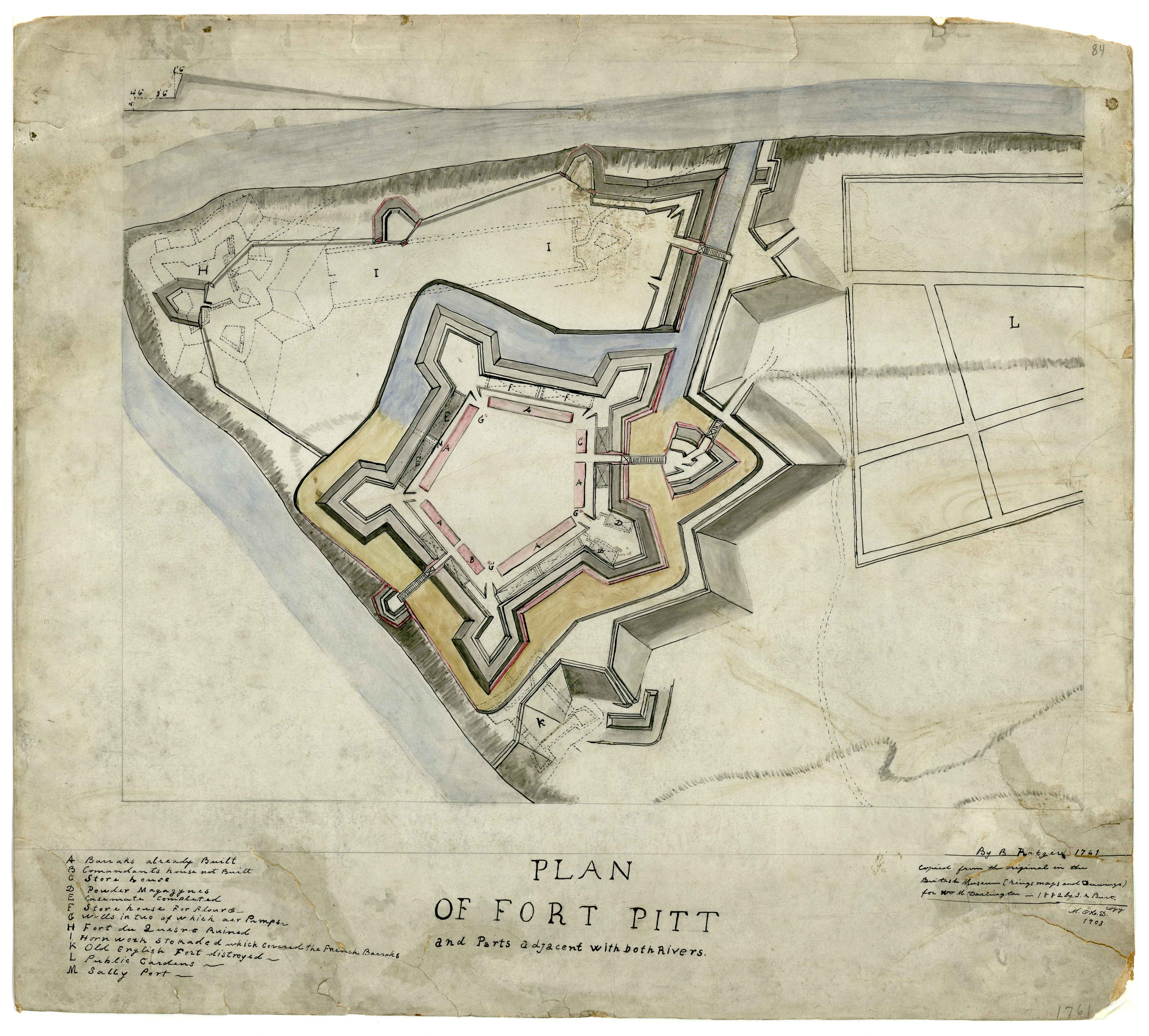 This is a plan of Fort Pitt published in 1861. Description from the Darlington Digital Library:Title: Plan of Fort Pitt and parts adjacent … Date: 1761 Creator: Ratzer, Bernard. Description: Plan of Fort Pitt and parts adjacent with both rivers. Manuscript Map. Copied from the orginial in the British Library (Kings' maps and drawings) for Wm. Darlington by J. A. Burt, 1882. M. O'H. D. copy 1903. Also showing, in dotted line, the earlier French Fort Duquesne. Subjects: Fort Pitt (Pa.)--Maps, Manuscript.; Fort Duquesne (Pa.)--Maps, Manuscript.; Pennsylvania--Maps, Manuscript.; United States--History--French and Indian War, 1755-1763--Maps, Manuscript.; Allegheny County (Pa.)--Maps, maunscript.; Maps, Manuscript.; Burt, J Dimension: 50 x 56 cm Scale: 1:3,050 Identifier: DARMAP0213